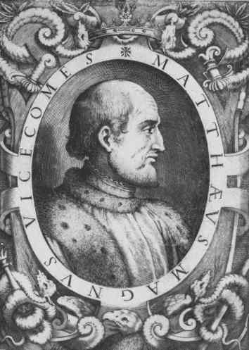 Matteo I Visconti. 18th century anonymous engraving.